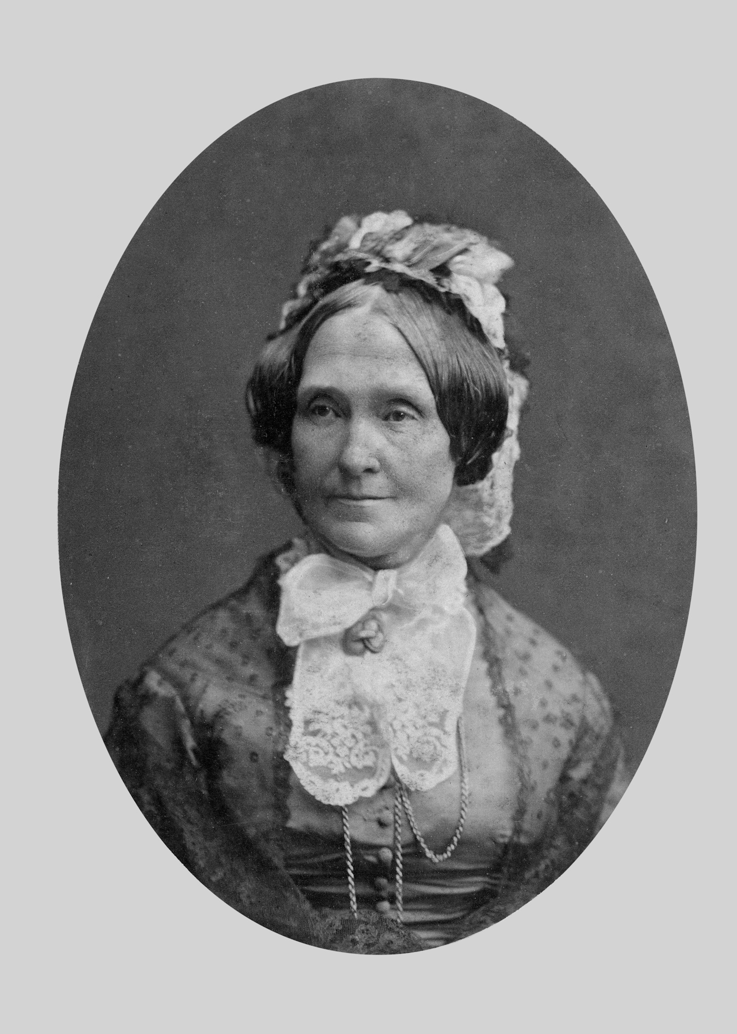 Louise von der Decken born von Wallmoden